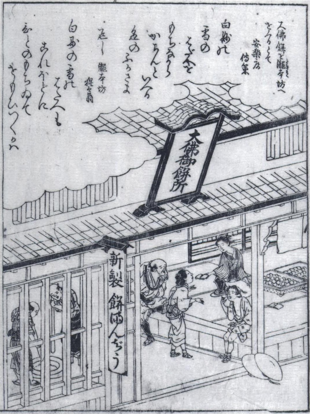 A Japanese confectionery store as shown in "The Great Buddha Sweetshop" from Akisato Ritō's Miyako meisho zue (都 名所 圖會; An Illustrated Guide to the Capital), illustrated by Shunchosai Takehara Nobushige. The store benefited from being situated near the Great Buddha erected by Toyotomi Hideyoshi, one of Kyoto's most popular tourist attractions.